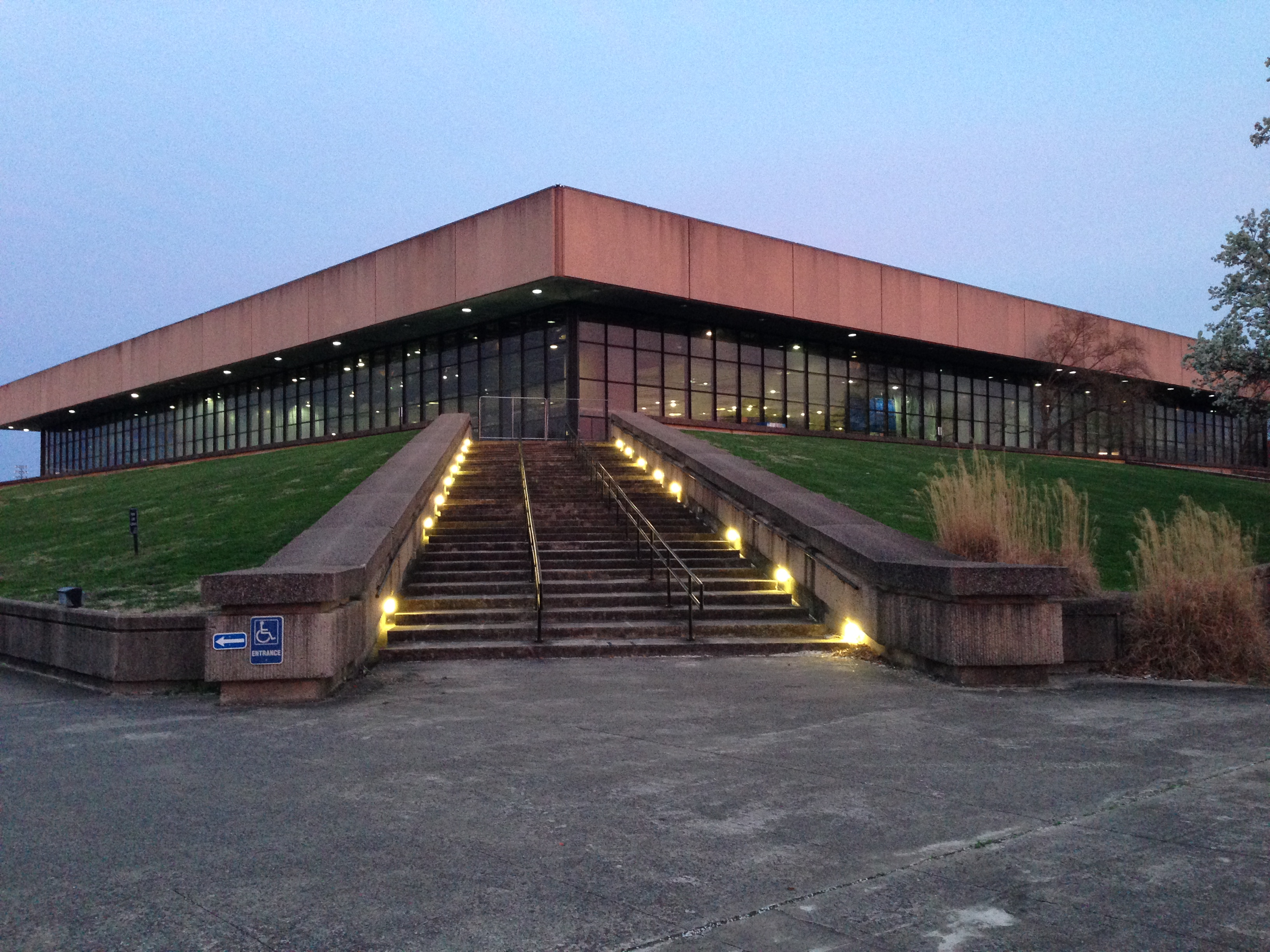 Exterior of Charles M. Murphy Athletic Center at Middle Tennessee State University in Murfreesboro, Tennessee, USA, as viewed from the northwest